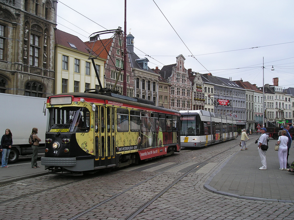 PCC tram No 6342 in Ghent, near Korenmarkt tram stop.